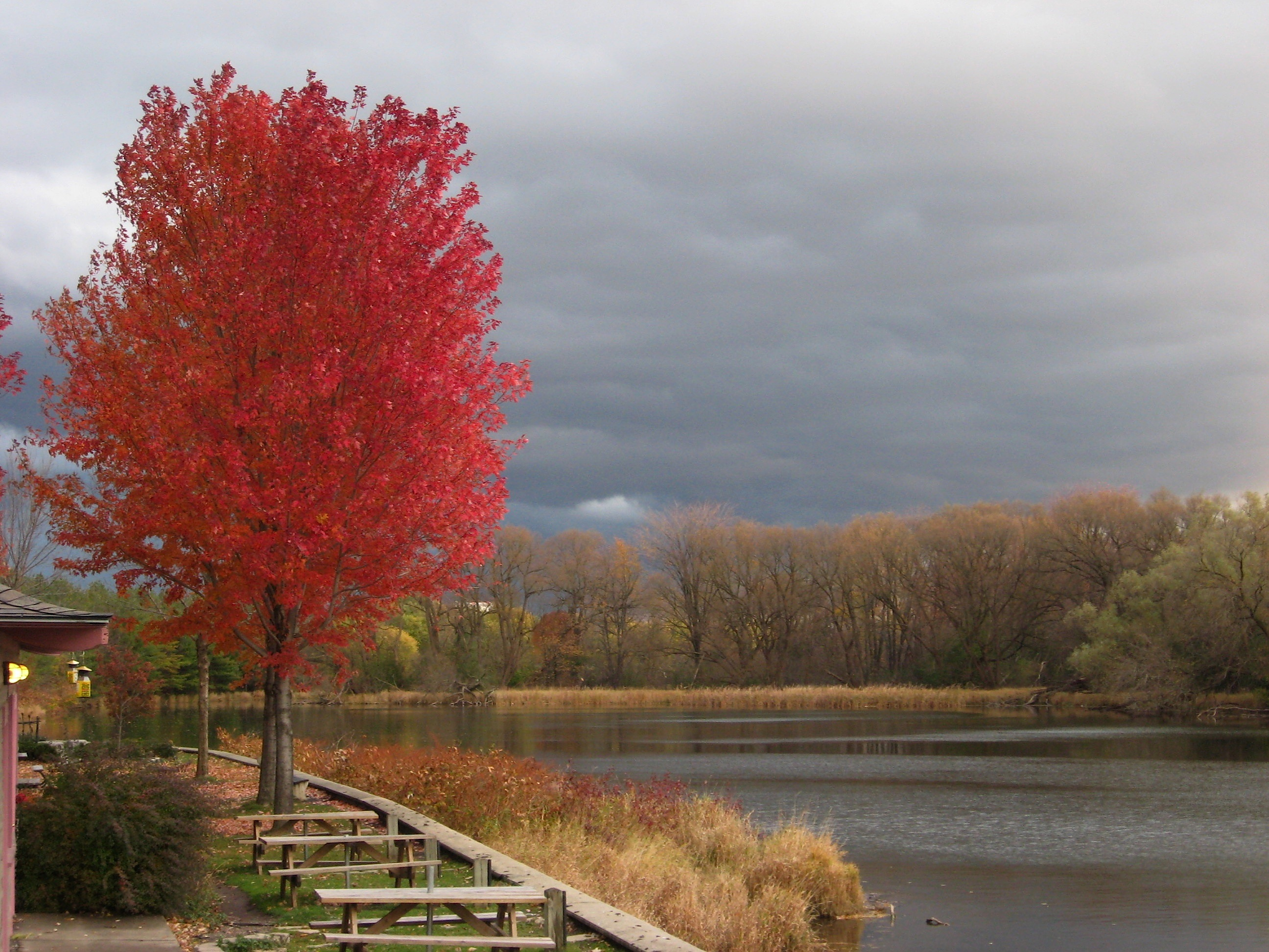 Eramosa River, Guelph, Ontario: view at confluence with Speed River, fall colors